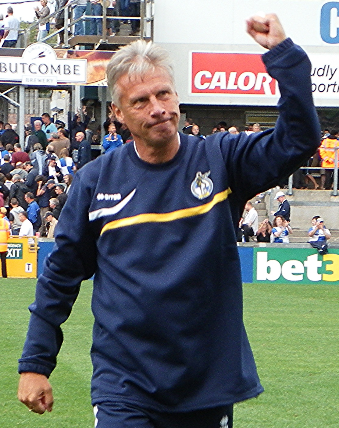 John Ward after Bristol Rovers' match against York City at the Memorial Stadium, Bristol on 24 August 2013